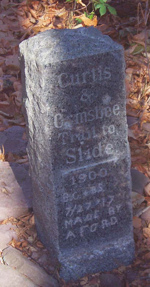 Photographed by Daniel Case 2005-11-12